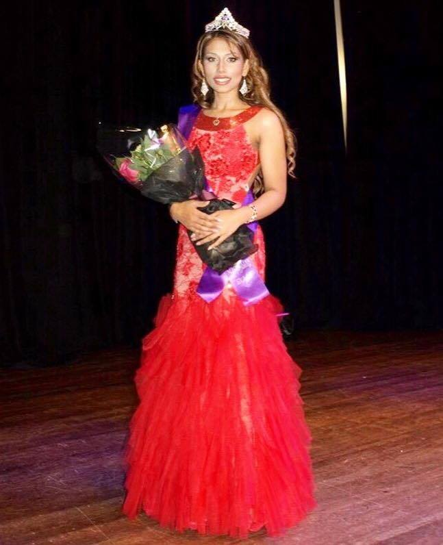 Shyla Prasad with crown and flowers at coronation